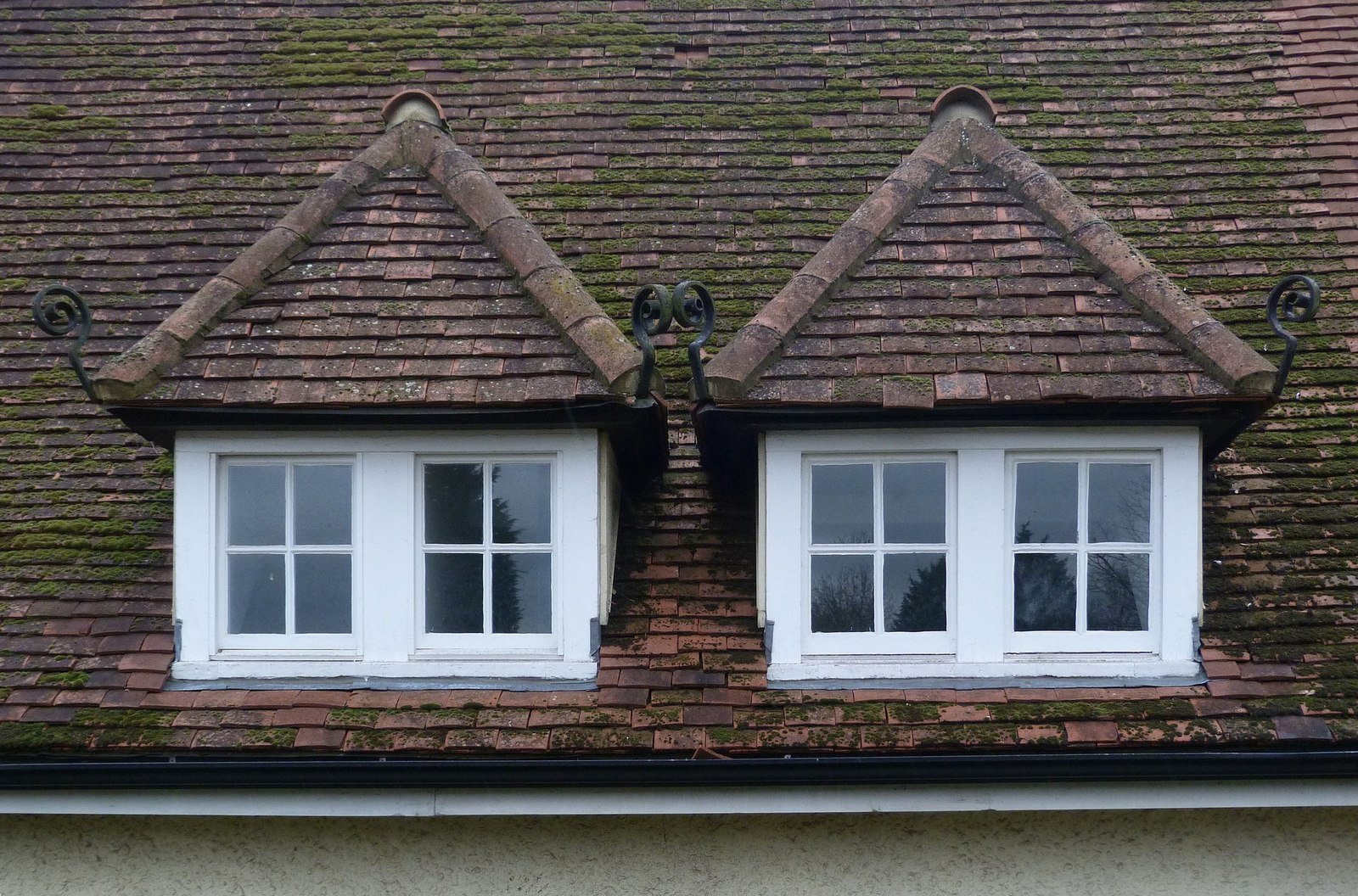 Paired dormer windows, Letchworth